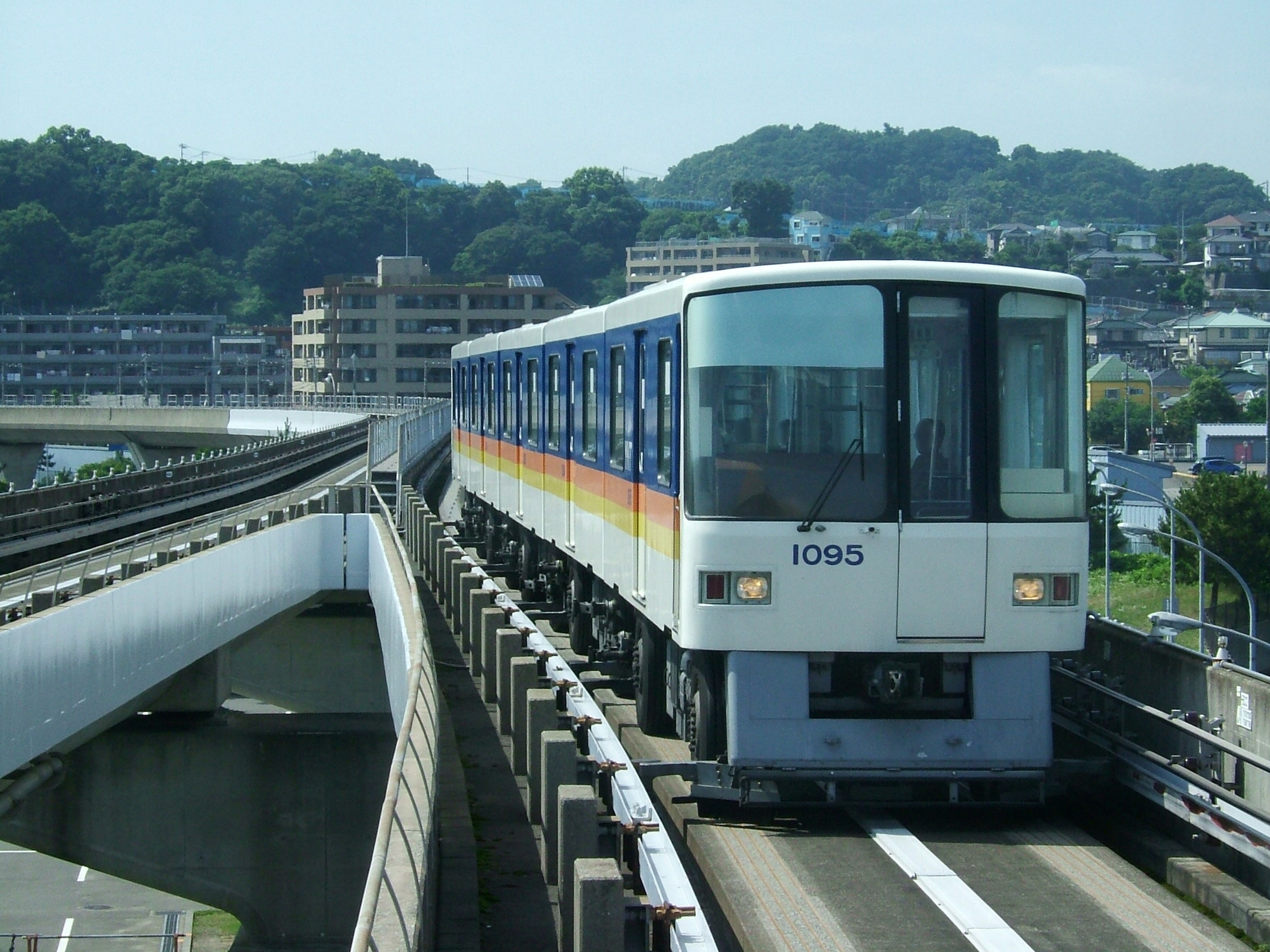 The 9th unit of Kanazawa Seaside Line 1000 trainset